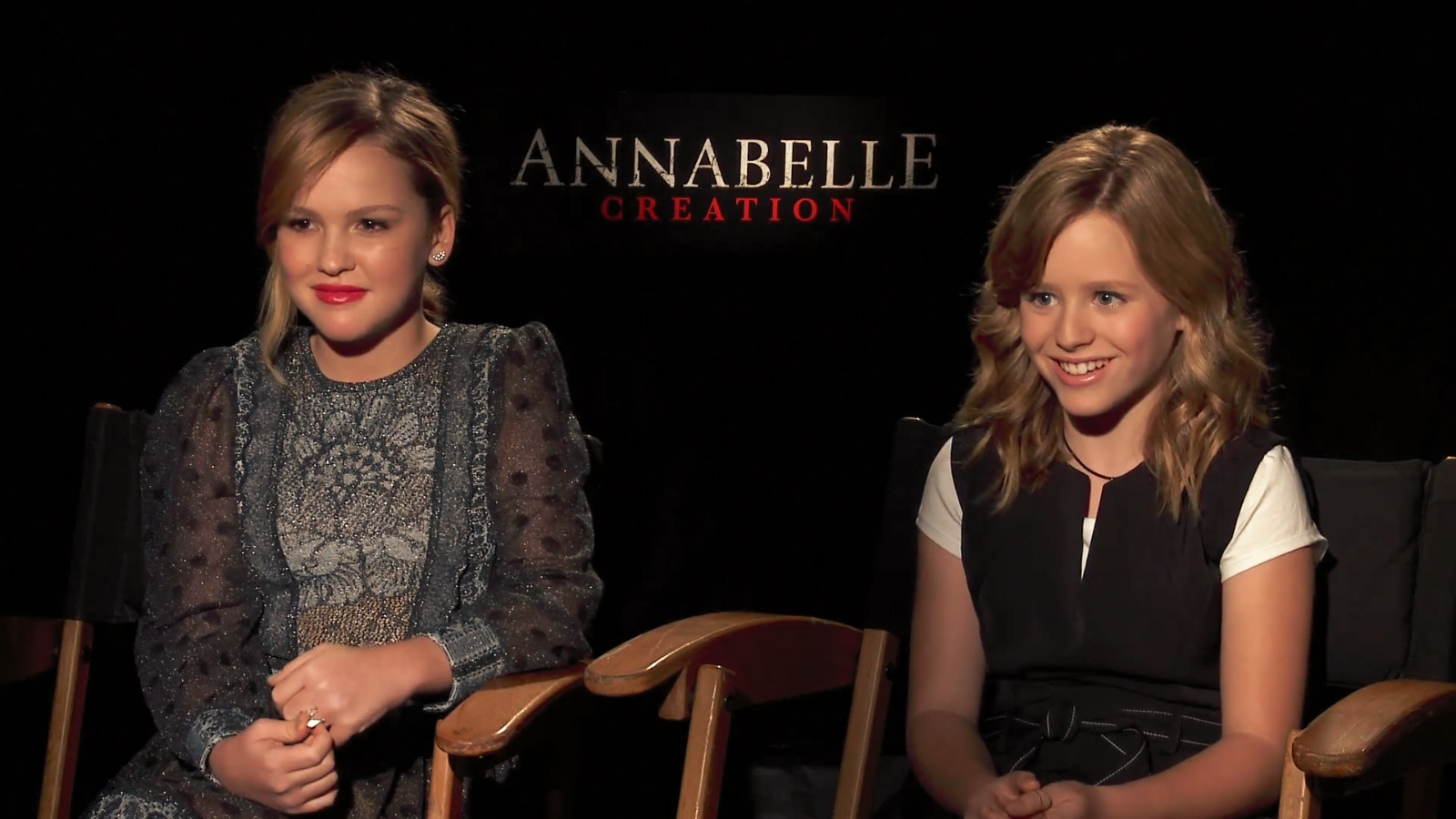 American child actresses Talitha Bateman and Lulu Wilson talk about their experience filming Annabelle Creation - on theaters August 11th, 2017.